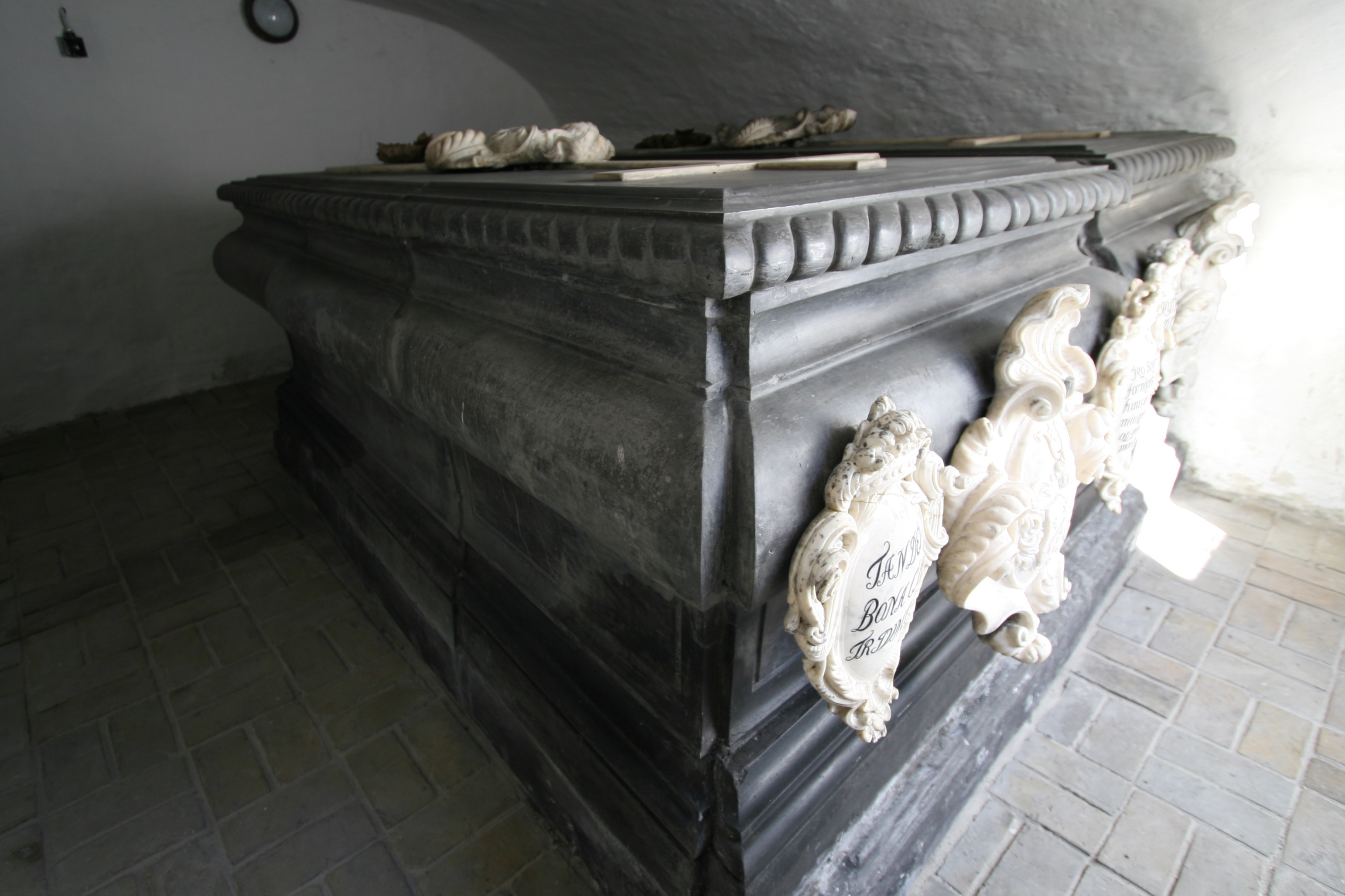 Garnisons Kirke in Copenhagen, Denmark. The crypt.